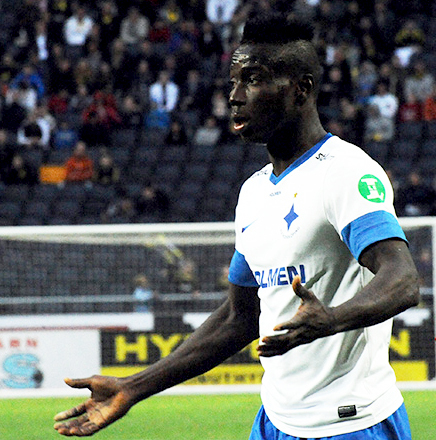 Alhaji Kamara (cropped and brightened version)